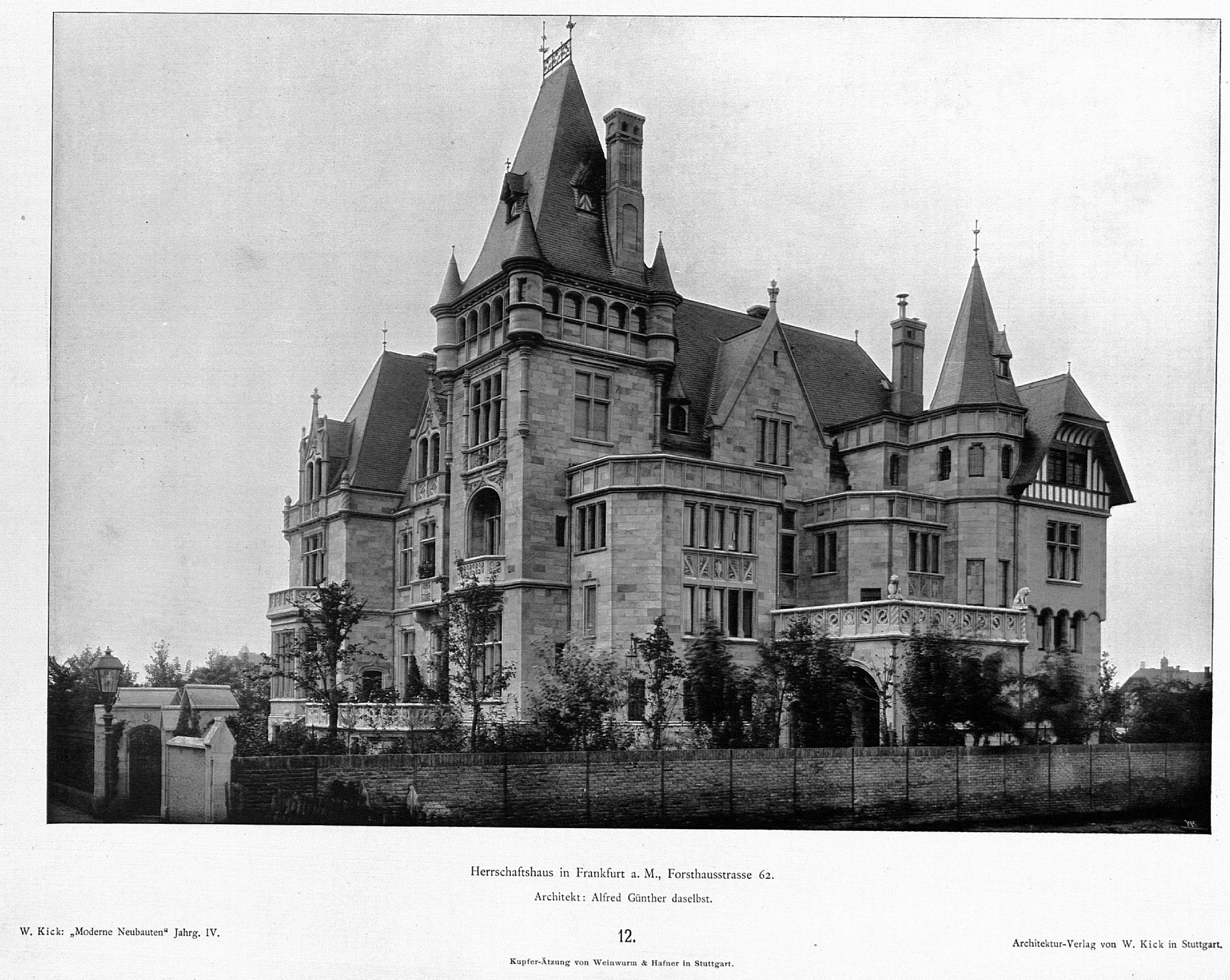 Haus_in_Frankfurt_a._M._Forsthausstrasse_62_Architekt_Alfred_Günther_Frankfurt.jpg